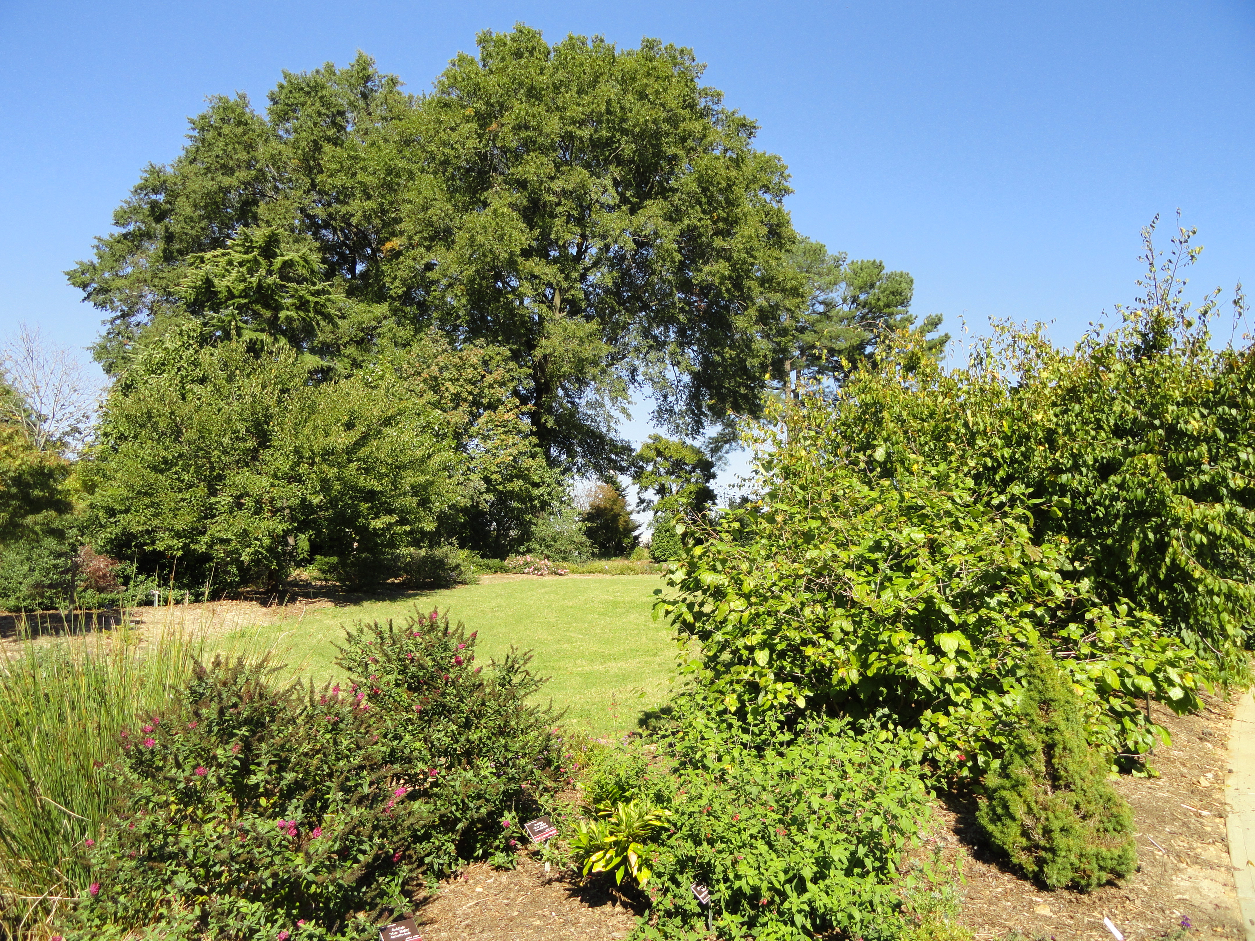 General view of the J. C. Raulston Arboretum (North Carolina State University), 4415 Beryl Road, Raleigh, North Carolina, USA.